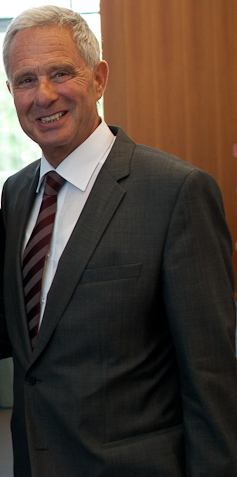 EM Honorary President Dieter Spöri.